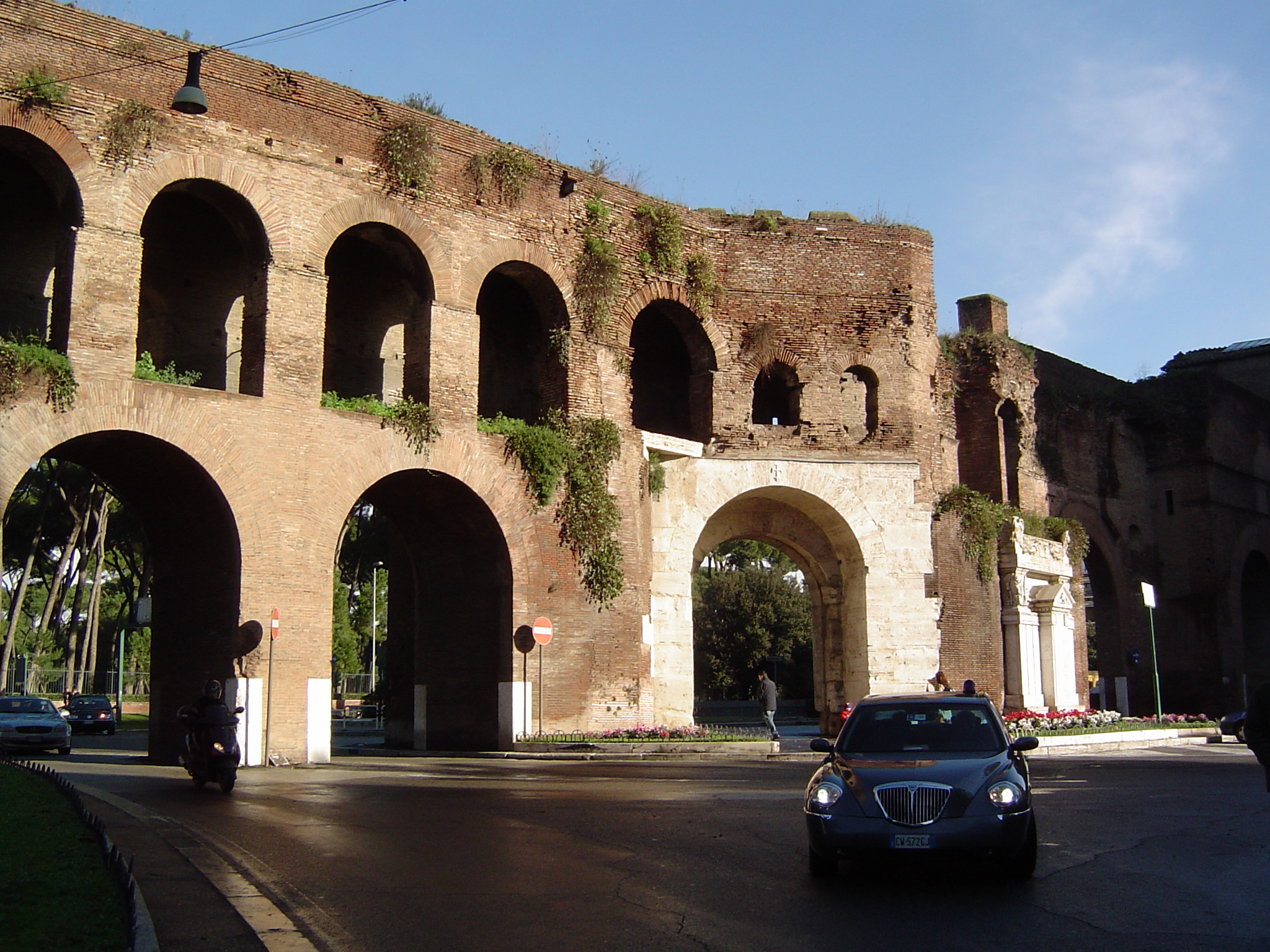 Porta Pinciana, Rome, Italy Made by Joris van Rooden, the Netherlands on 03-01-2006